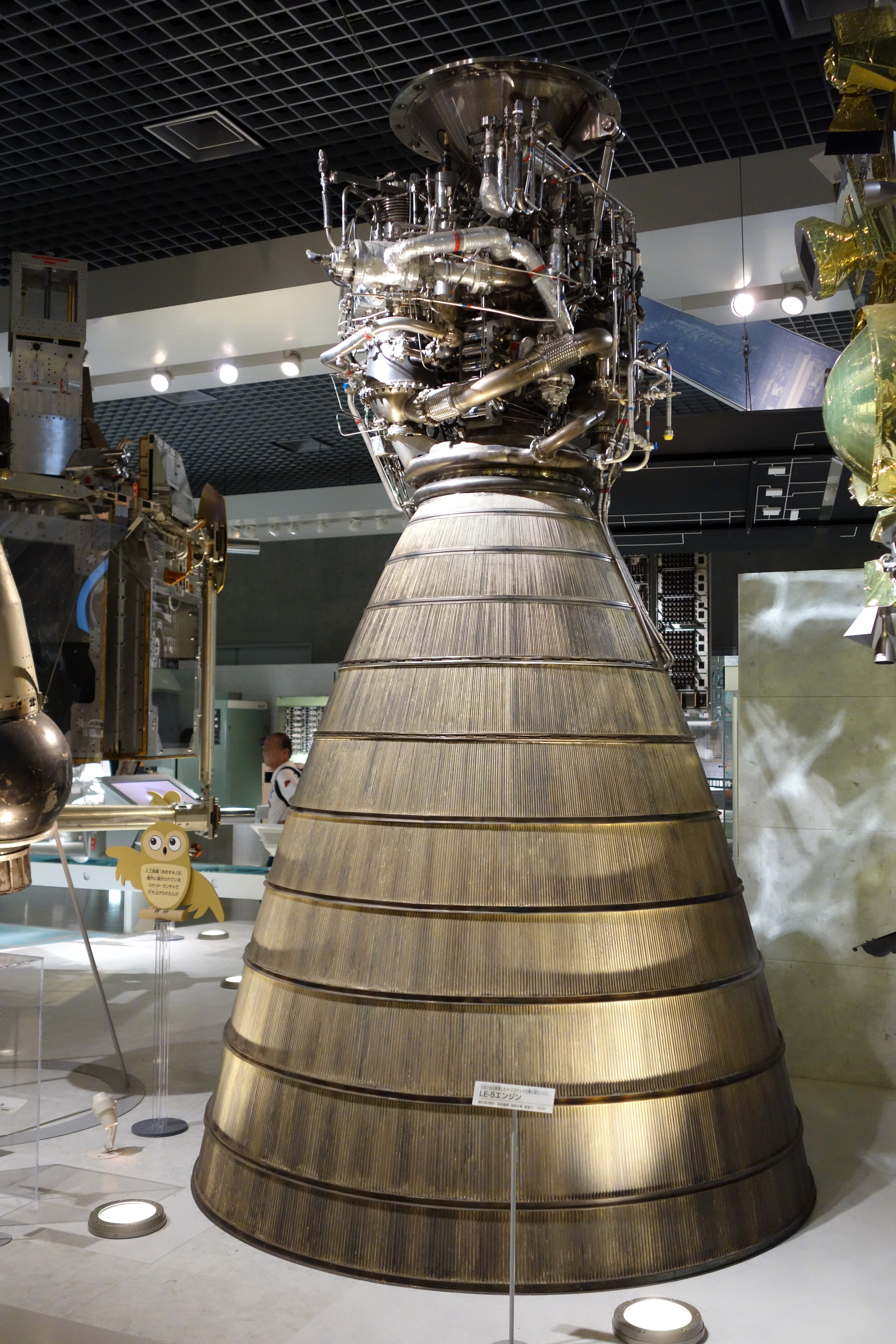 Exhibit in the National Museum of Nature and Science, Tokyo, Japan.